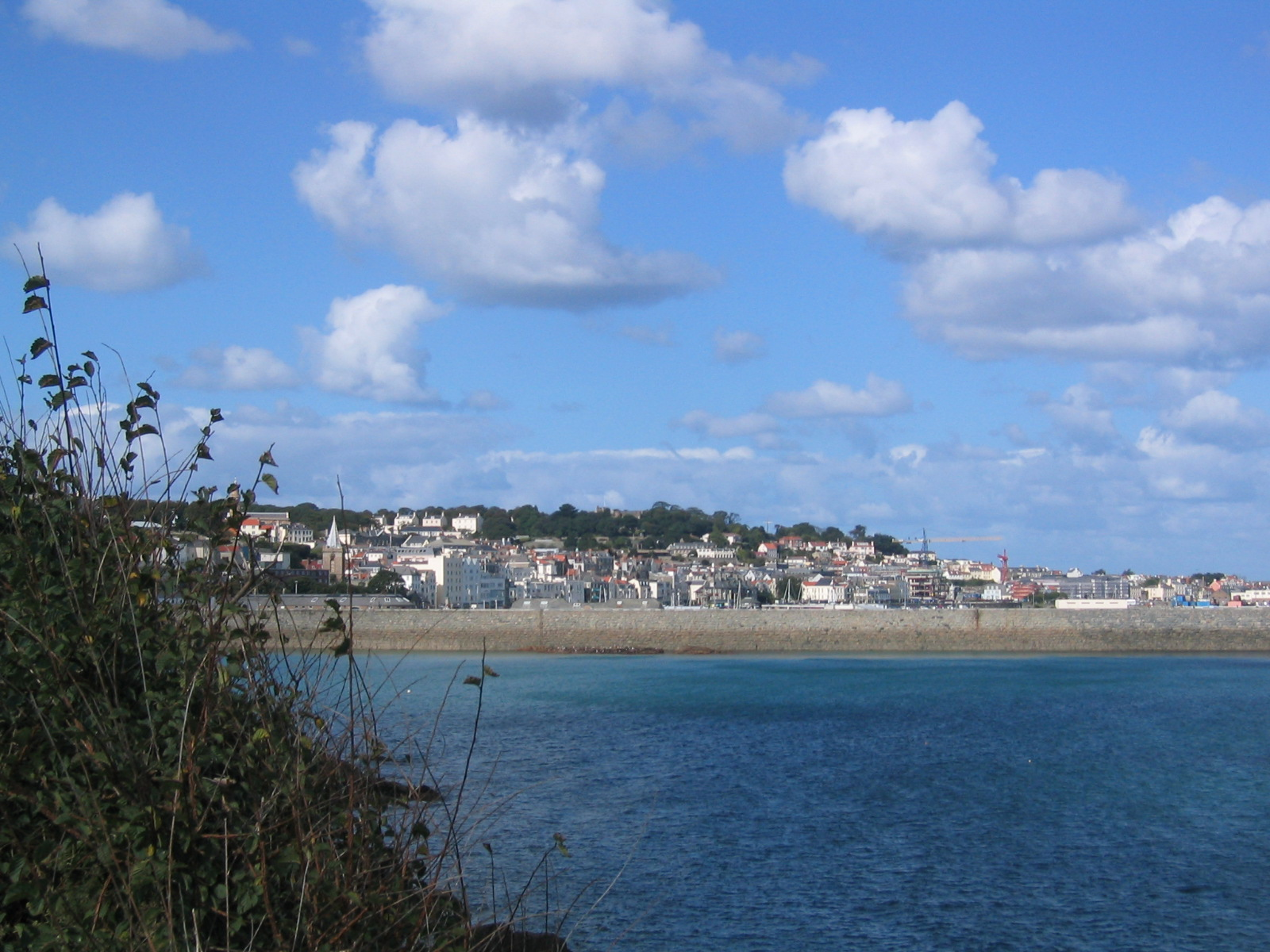 A view of St Peter Port, Guernsey from the south. Photo taken by AlanFord 2003-09-23. Category:Images of Guernsey